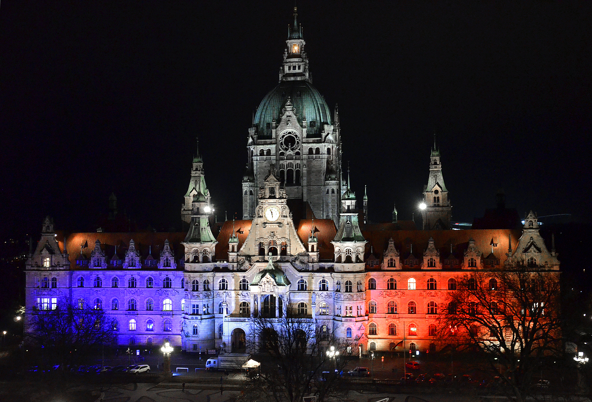 The New Town Hall of Hanover illuminated in the colors of the French Tricolore to show solidarity with the victims of the November 2015 Paris attacks ...